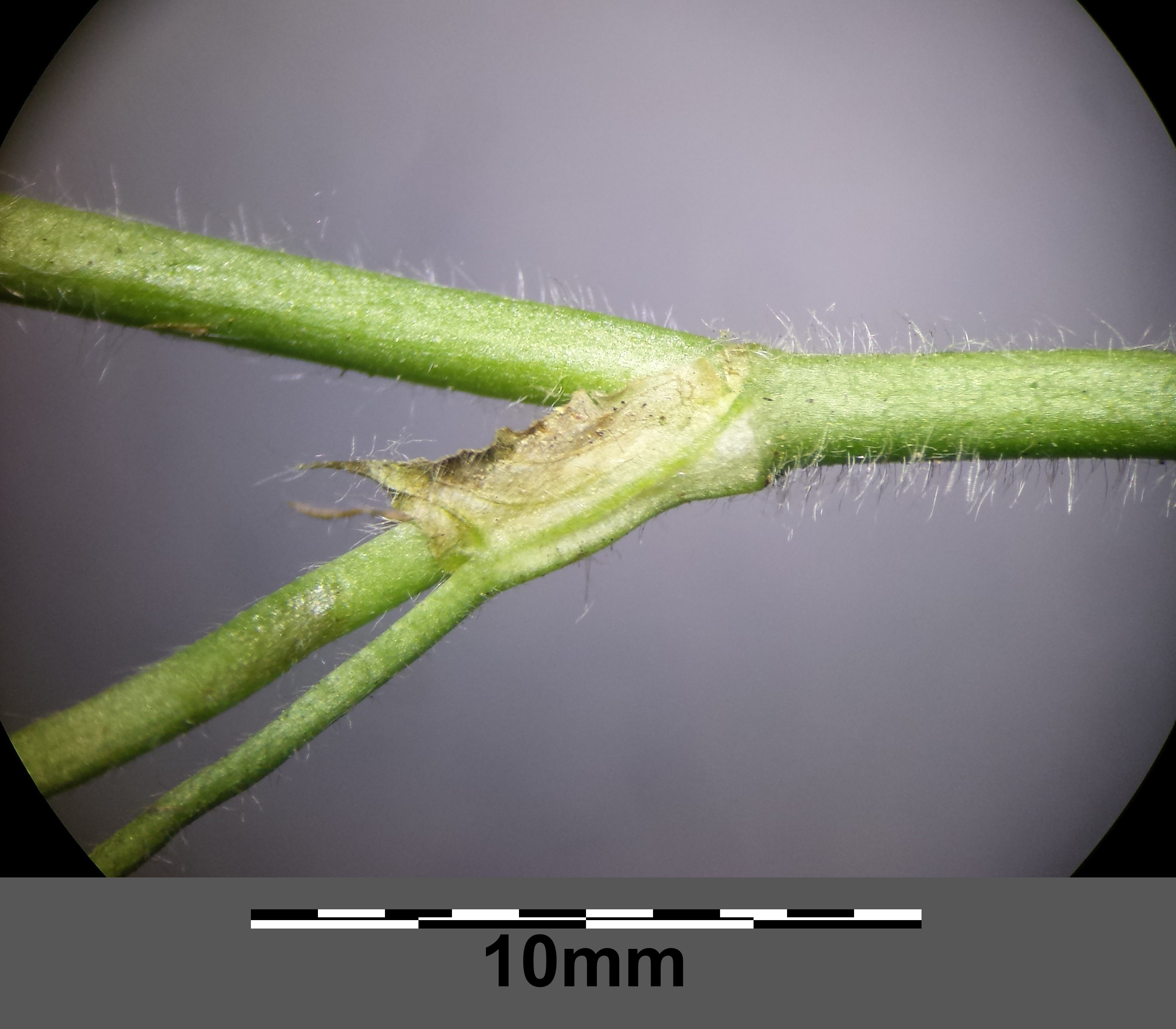 Stem with stipules Taxonym: Trifolium striatum ss Fischer et al. EfÖLS 2008 ISBN 978-3-85474-187-9 Location: Korneuburg rail station, district Korneuburg, Lower Austria - ca. 170 m a.s.l. Habitat: ruderal meadows